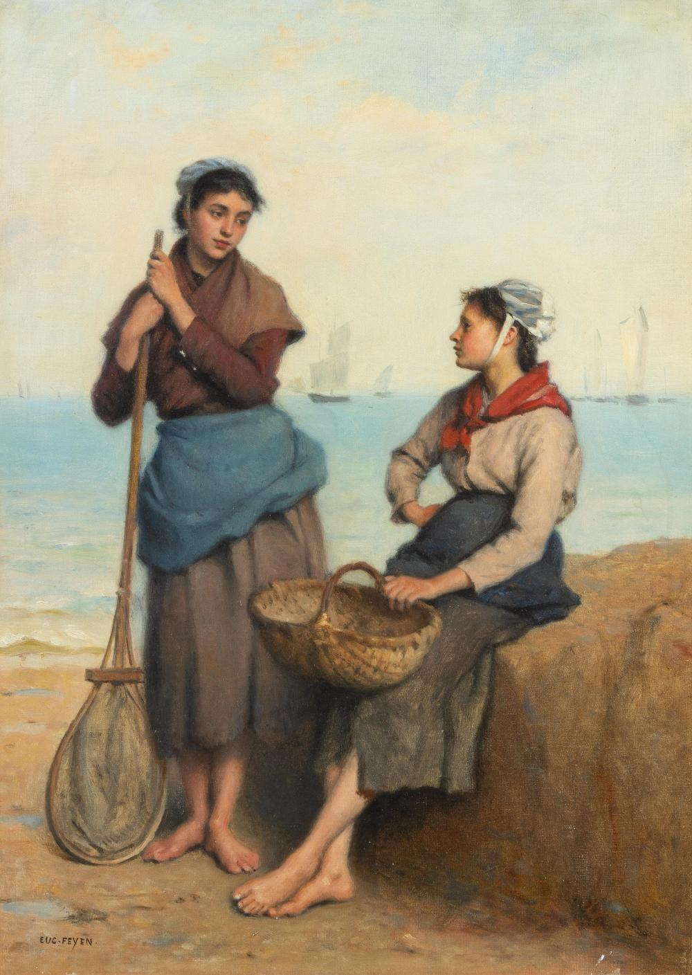 Gossip